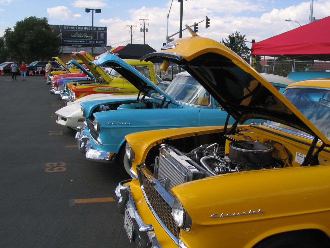 Reno is a city in the US state of Nevada. Known as "The Biggest Little City in the World", Reno is famous for its casinos and as the birthplace of Caesars Entertainment Corporation. The city is situated in the northwestern part of the state and is the county seat of Washoe County. Reno is the most populous Nevada city outside of the Las Vegas metropolitan area. As of the 2010 census, the city had a population of 225,221 making it the fourth most populous city in the state after Las Vegas, Henderson, and North Las Vegas. The city sits in a high desert at the foot of the Sierra Nevada and its downtown area (along with Sparks) occupies a valley informally known as the Truckee Meadows. Reno is part of the Reno–Sparks metropolitan area which consists of all of both Washoe and Storey counties and has a 2013 estimated population of 437,673. making it the second largest metropolitan area in Nevada.